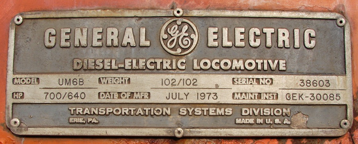 South African Class 91-000 91-002 builder's plateBuilder's number: GE 38603Type: GE UM6BLocation: Humewood Road, Port Elizabeth, Eastern Cape